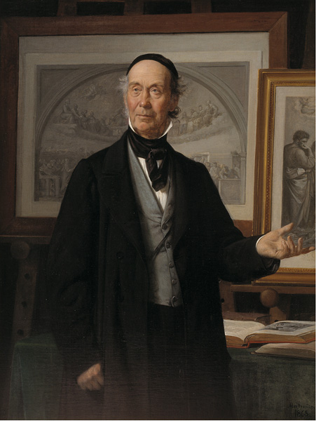 Portrait of the Danish art historian N. L. Høyen